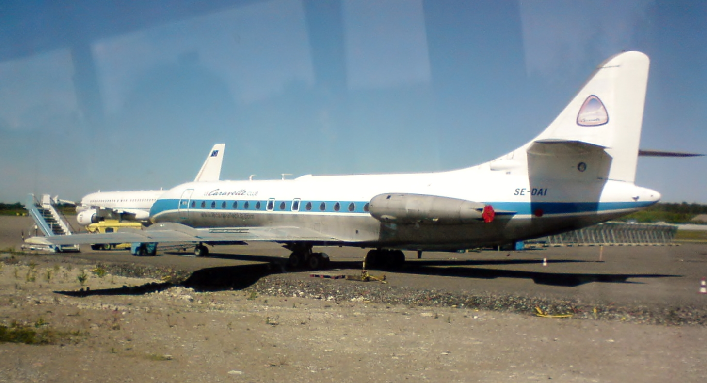 Sud Aviation Caravelle at Arlanda Airport